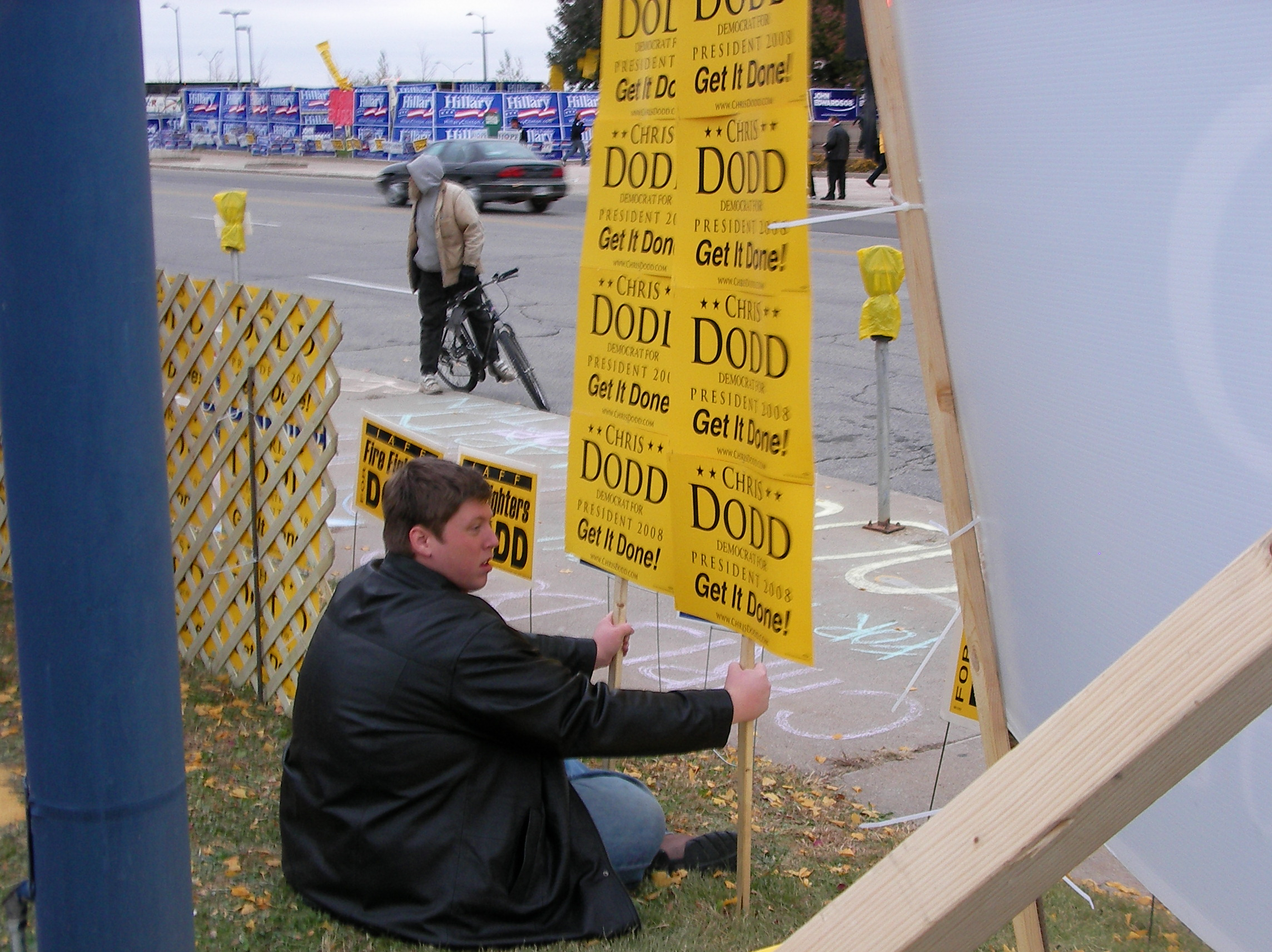 A Chris Dodd supporter takes a moment to give his feet a rest outside Vets Auditorium Nov. 10 in Des Moines.